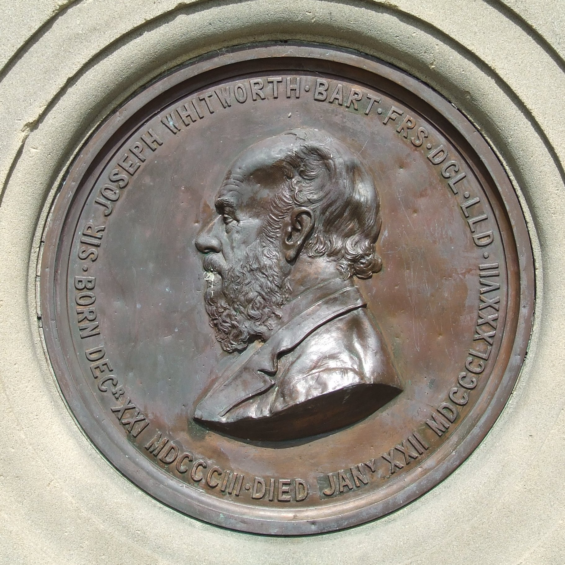 Photograph of a plaque on the memorial to Joseph Whitworth in the park in Darley Dale, Derbyshire, UK.